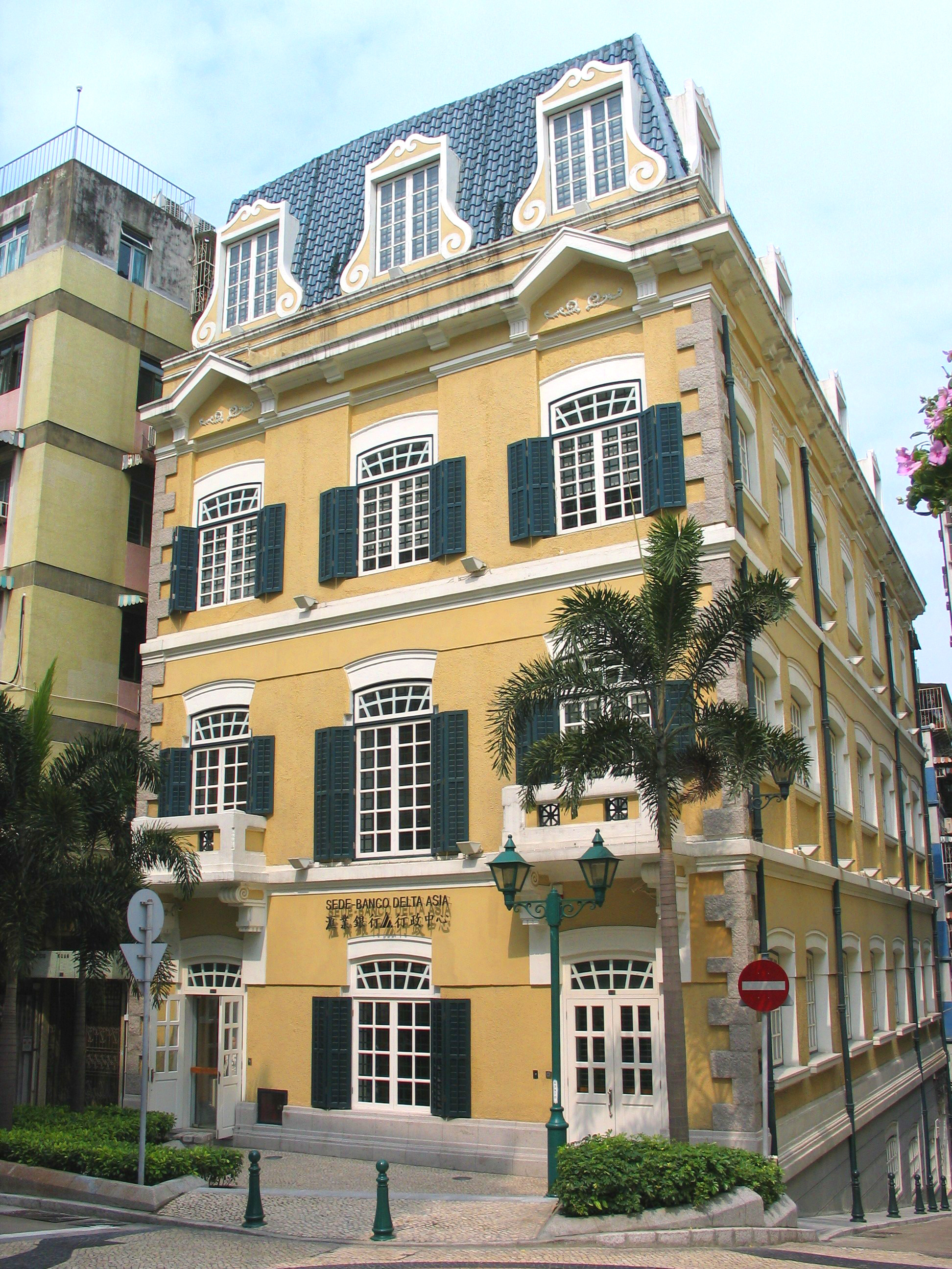 Administration Centre of Banco Delta Asia in Macao 匯業銀行於澳門崗頂的行政中心大樓 Source: taken by Glio, using Canon Powershot G5